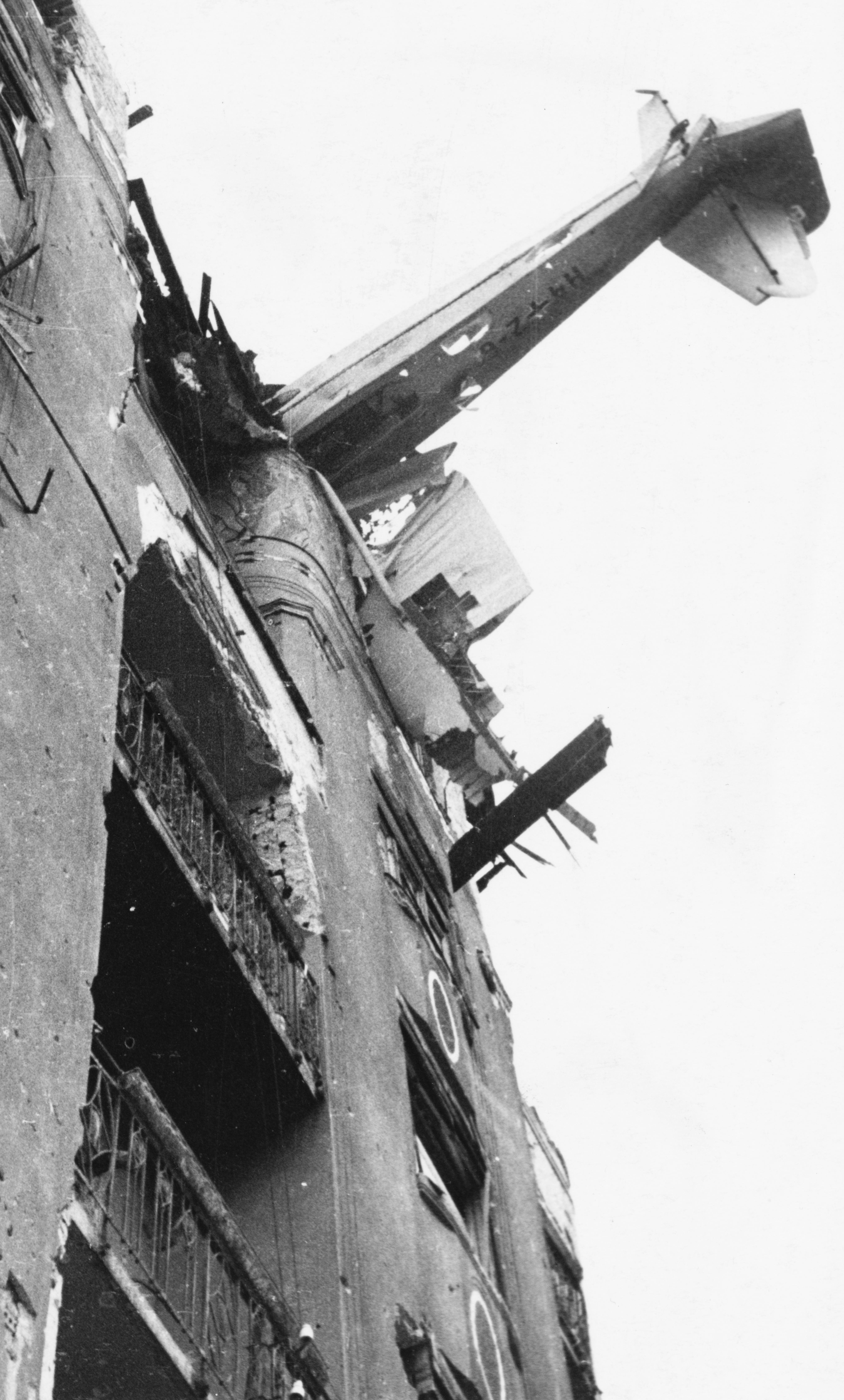 A DFS 230 of LLG 1 (1st Glider Assault Wing), after colliding with a building